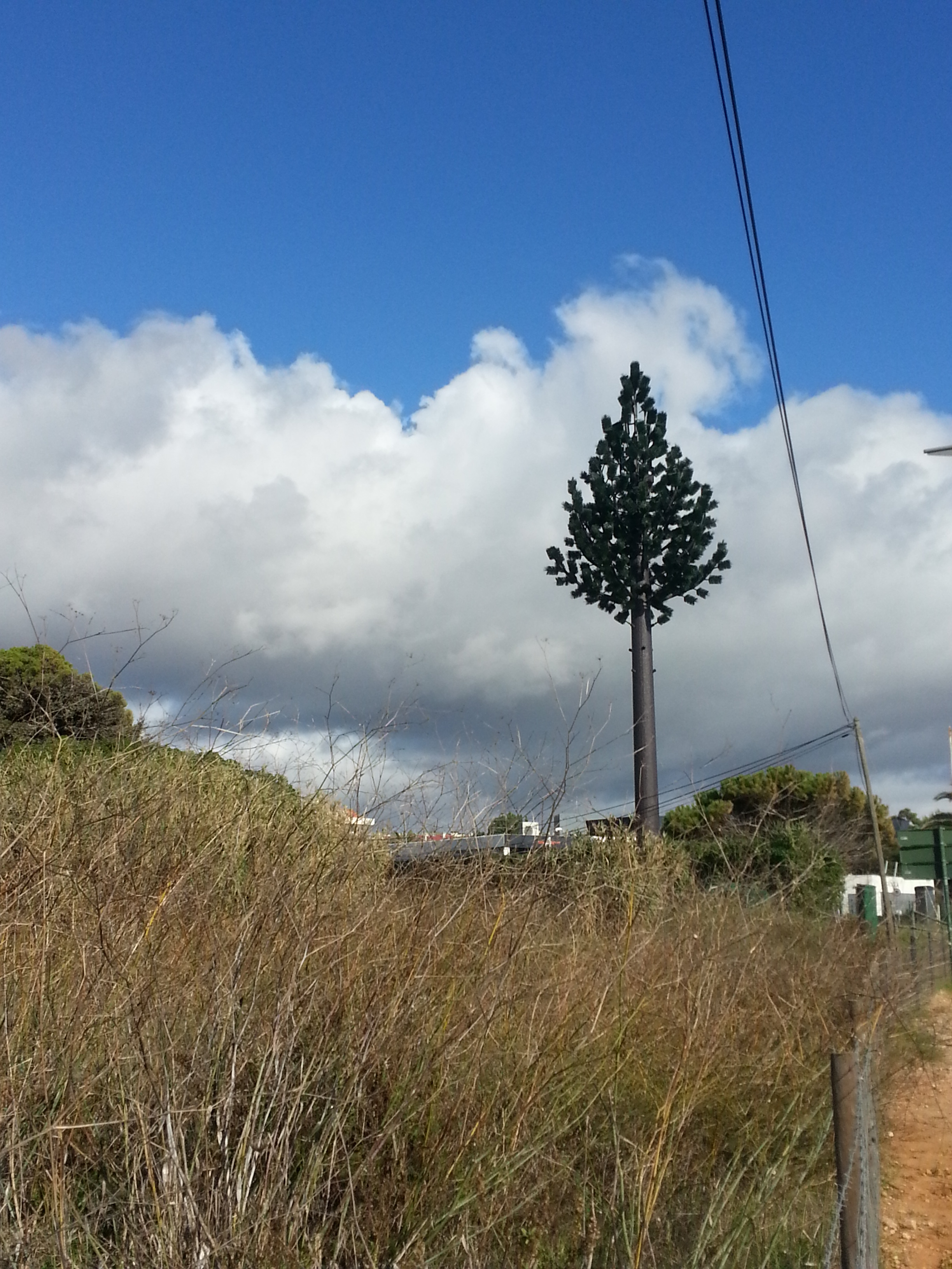 camouflaged Gsm antenna in Cascais Portugal